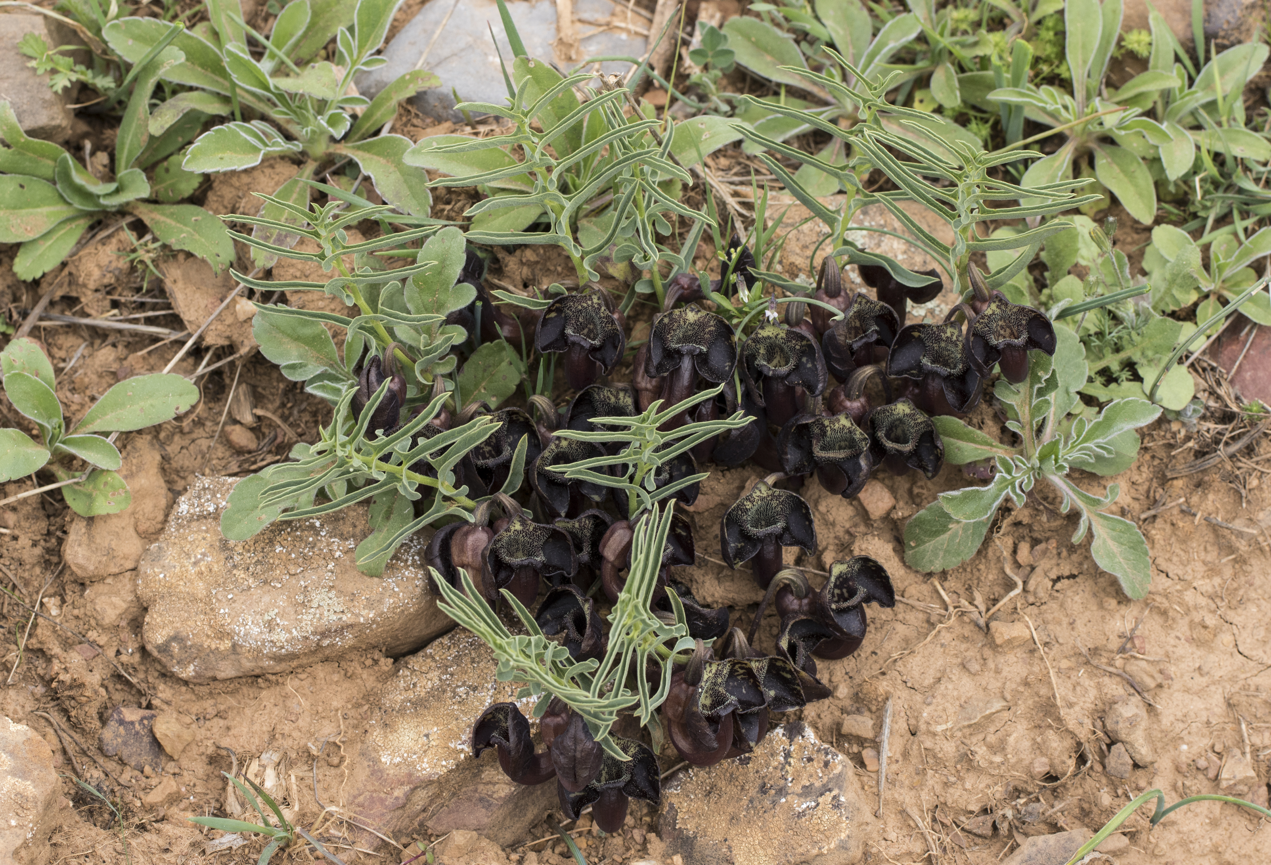 Aristolochia sp. in Dutlupınar, Saimbeyli - Adana, Turkey.